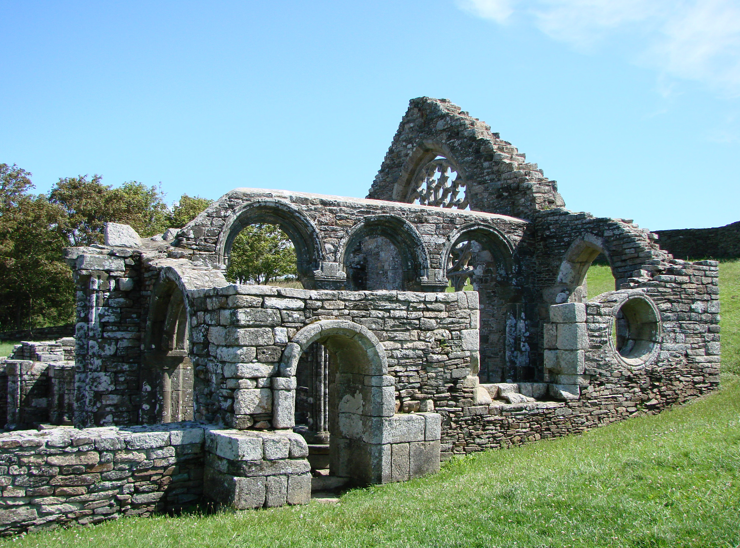 Languidou Chapel, Finistère, Brittany, 13th and 15th century.